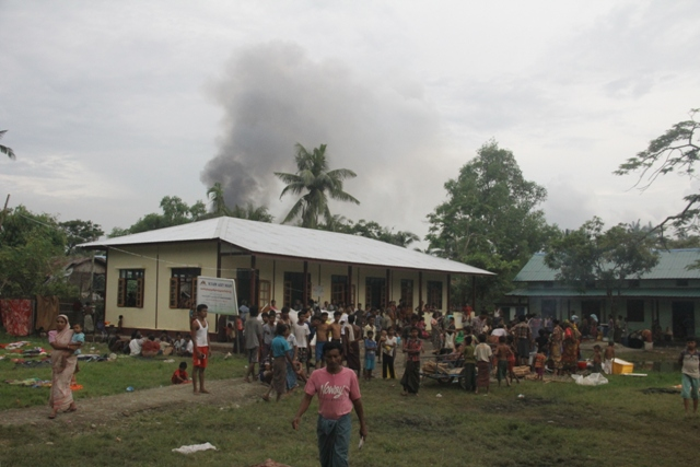 Displaced Hindu families at a makeshift camp located at the No. 3 Primary School of North Myoma Quarter, Maungdaw.